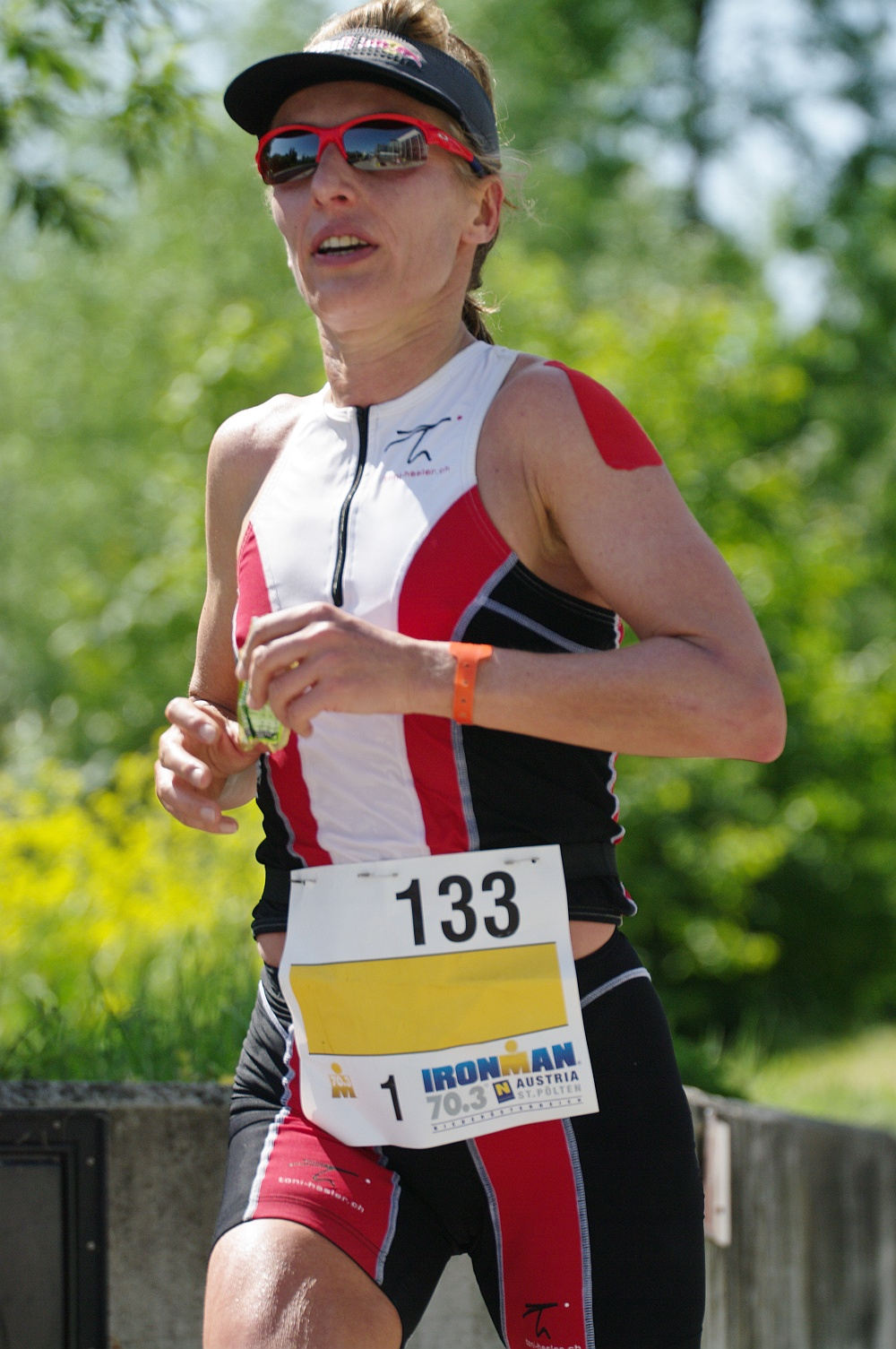 Swiss triathlete Natascha Badmann in the Ironman 70.3 Austria on 20 May 2012 in St. Pölten.